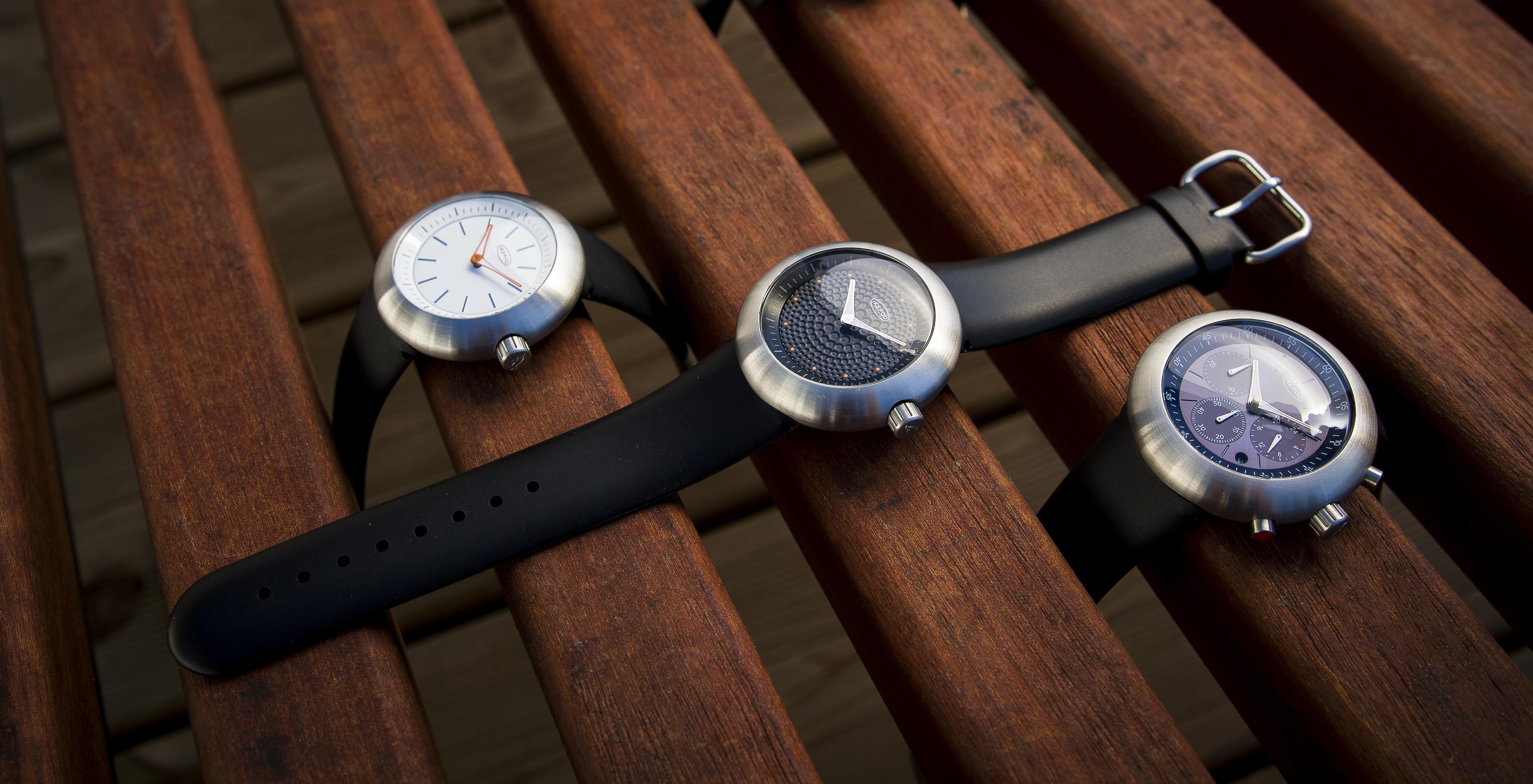 3 Ikepods to be released as part of the 2018 Collection